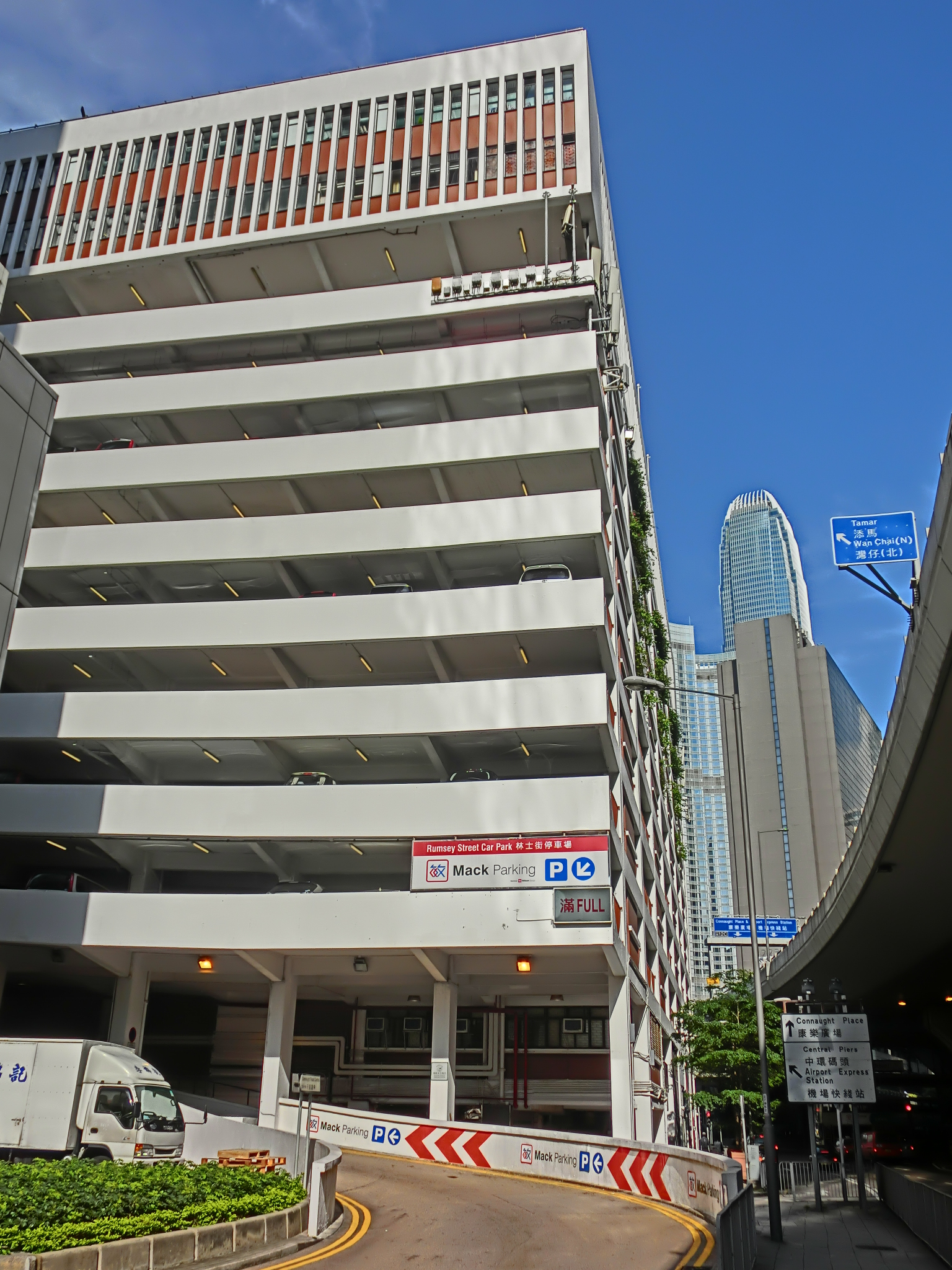 Sheung Wan, Hong Kong